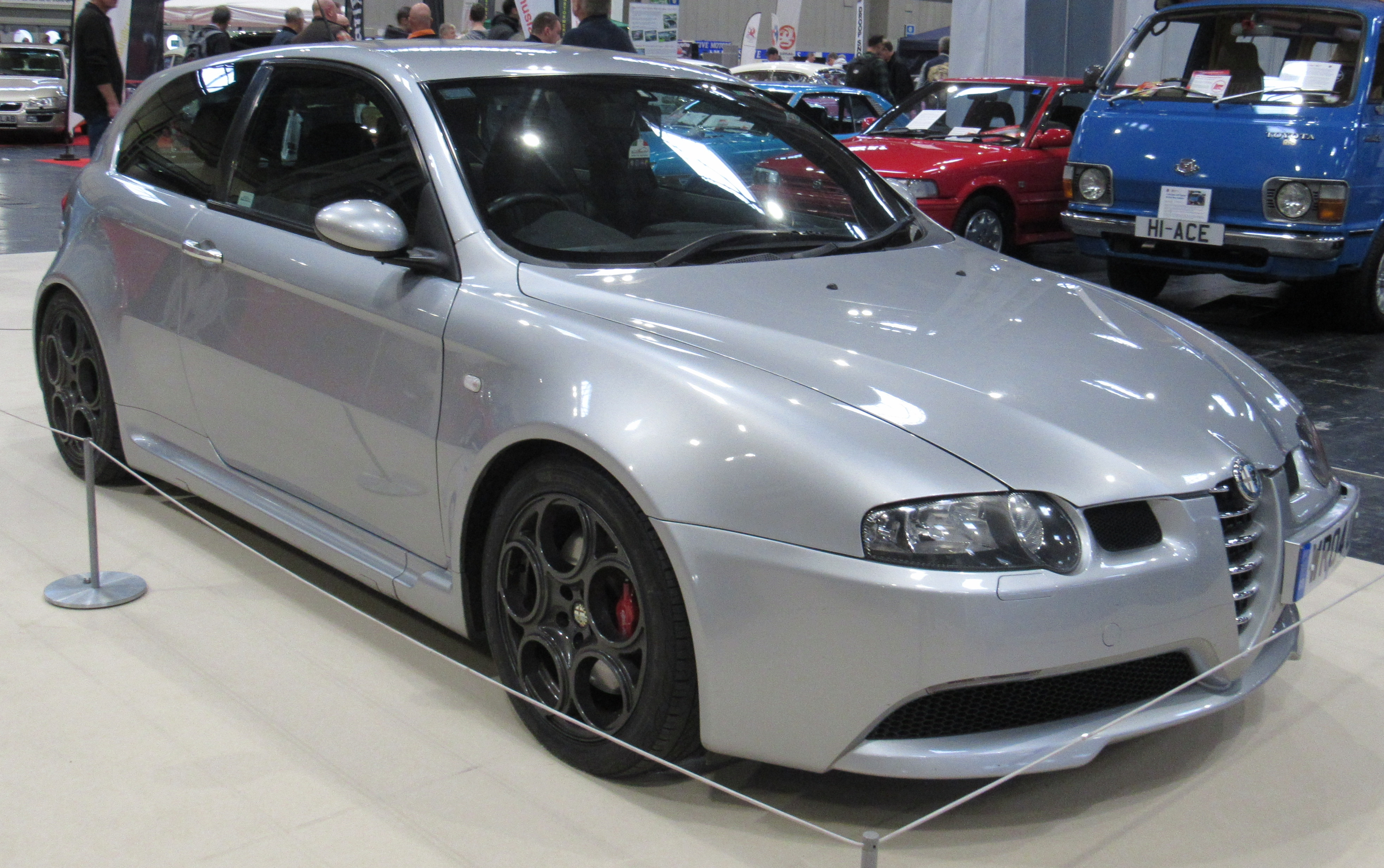 2004 Alfa Romeo 147 V6 24V GTA 3.2 Front Taken at the NEC Classic Motor Show 2017